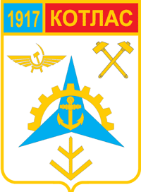 Kotlas (Arkhangelsk oblast), coat of arms